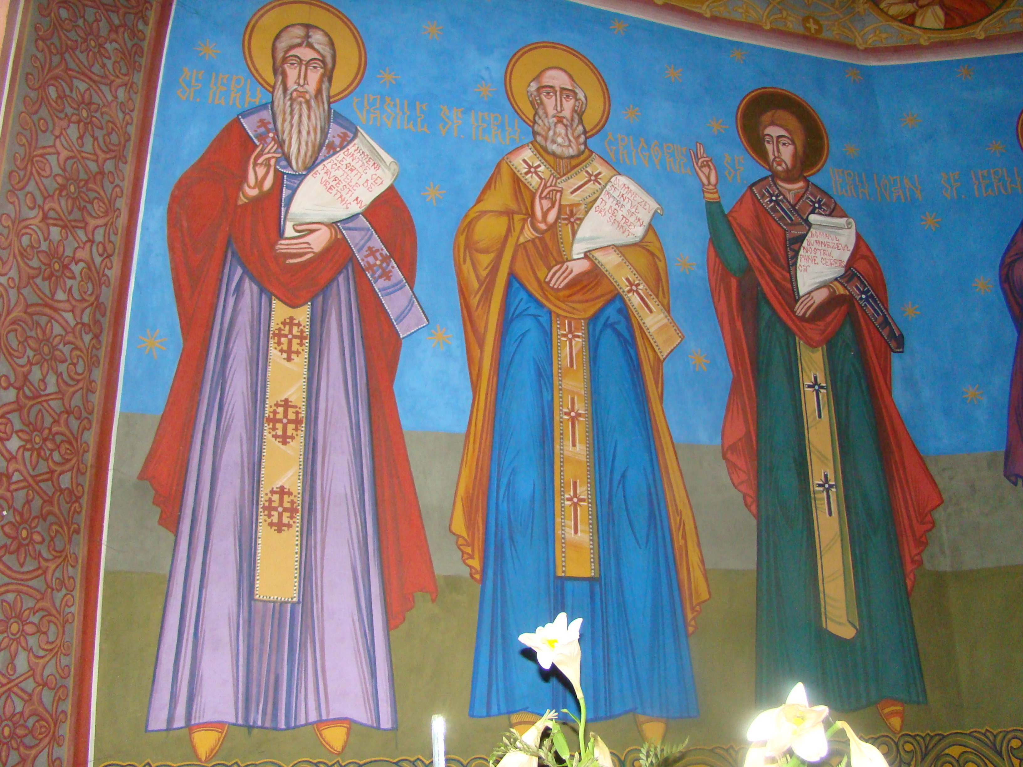 Church of the Annunciation in Băița, Hunedoara county, Romania